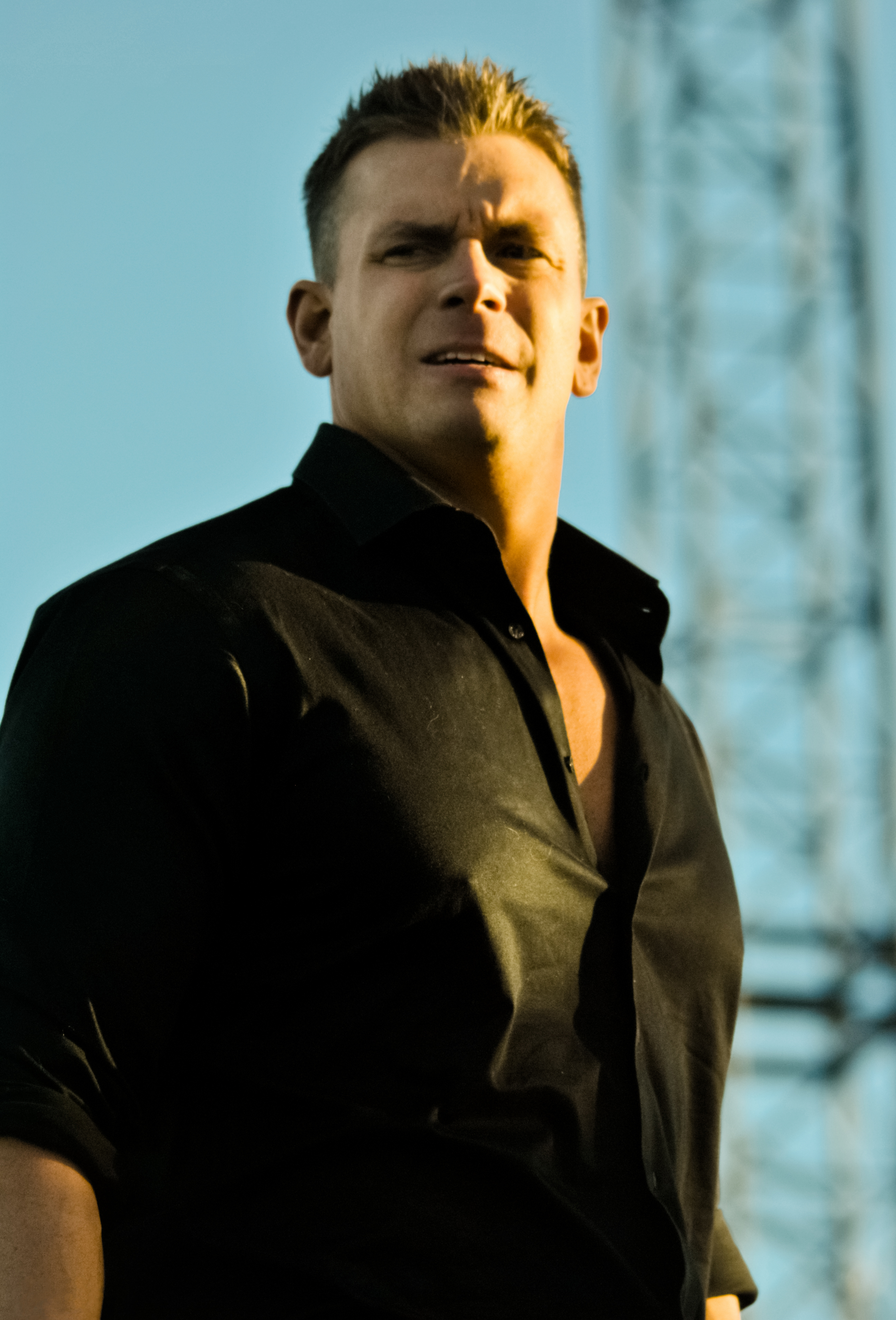 Alex Riley at WWE's Tribute to the Troops event on December 11, 2010 in Fort Hood, Texas.